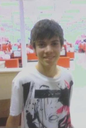 Alexander Gould in the Starbucks located at Santa Clarita East Target store, taken on my cell phone